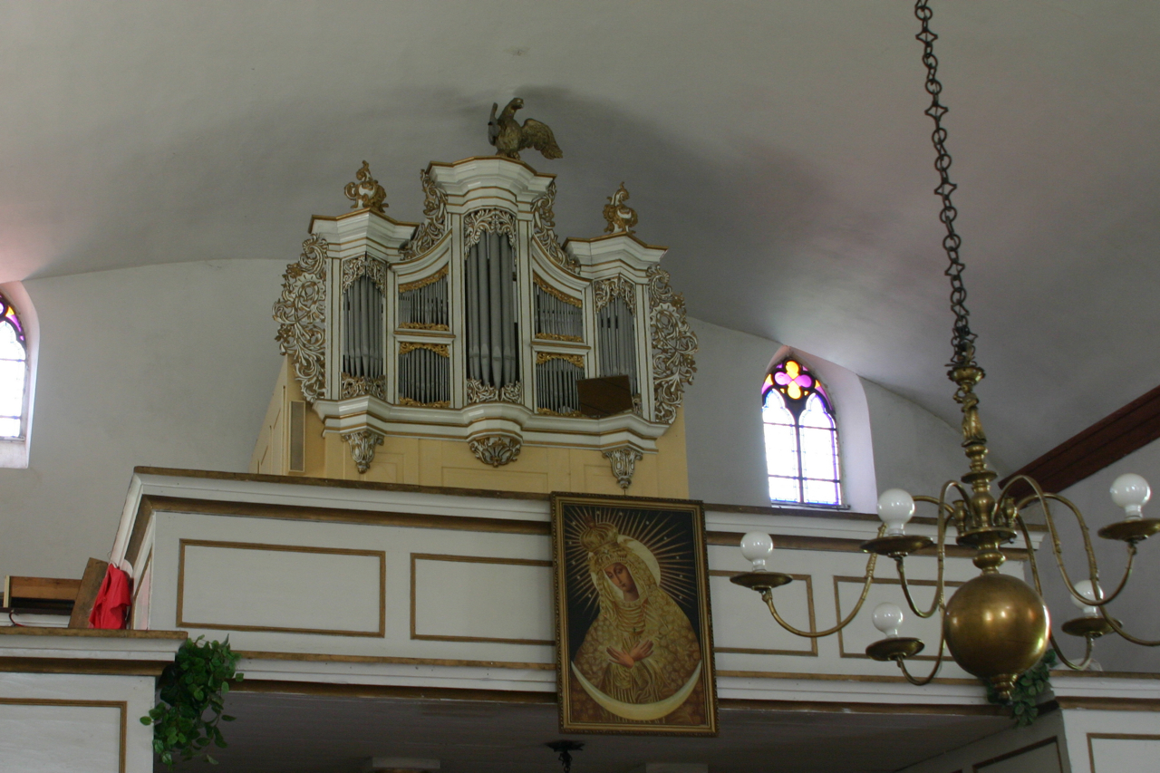 Winda - OpenStreetMap(Info)